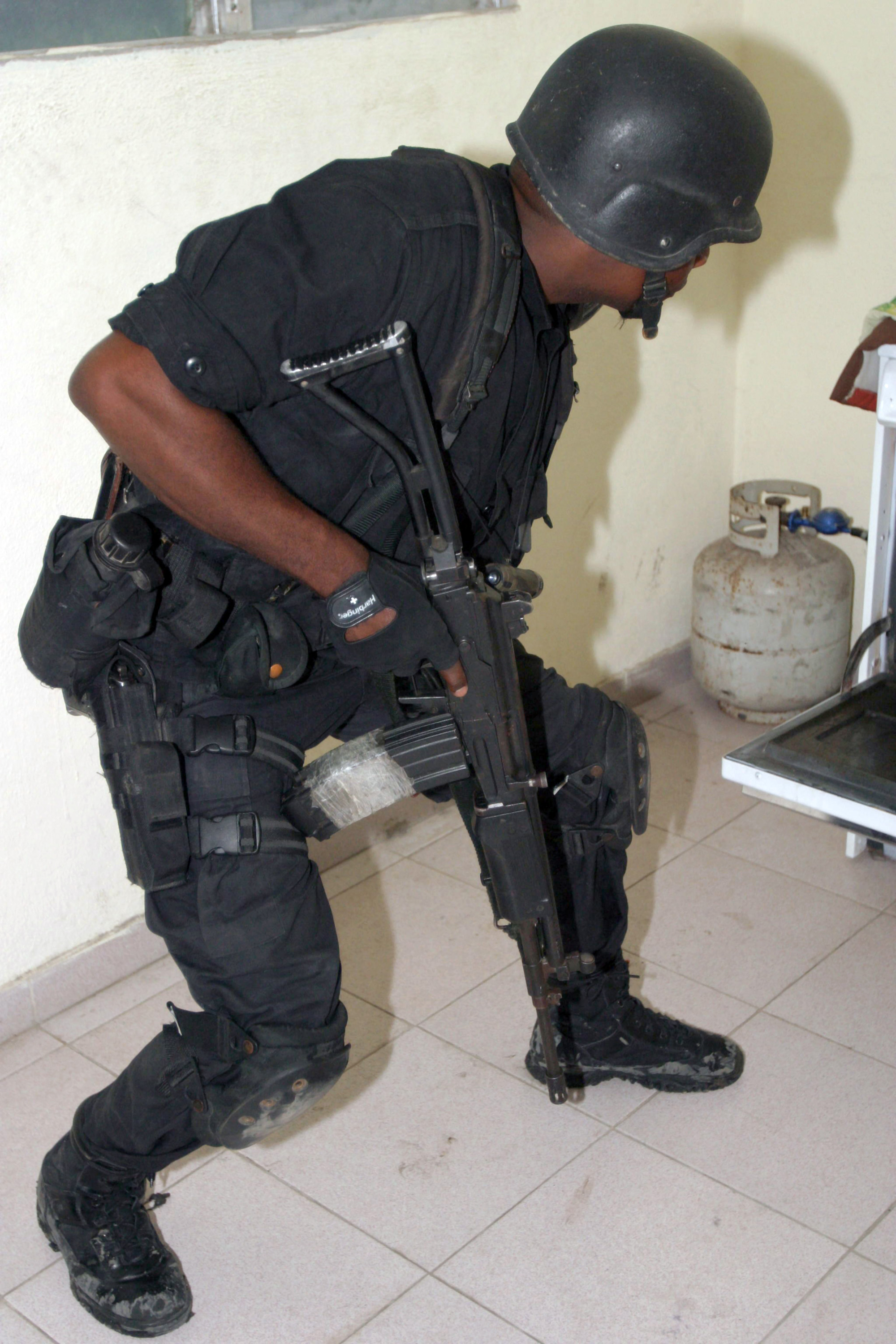 A member of the Haitian National Police Special Weapons And Tactics (HNP SWAT) team, armed with a 5.56mm Vektor R5 assault rifle, equipped with folding stock, during the search an apartment complex during a pre-dawn raid. The complex was believed to be the location where US Marine Corps (USMC) Marines had been taking sporadic fire from since they arrived in Port-Au Price, Haiti. USMC Marines with Haitian National Police, who translate and enforce Haitian laws, conduct raids to find weapons and other violations of the law. (Released to Public)